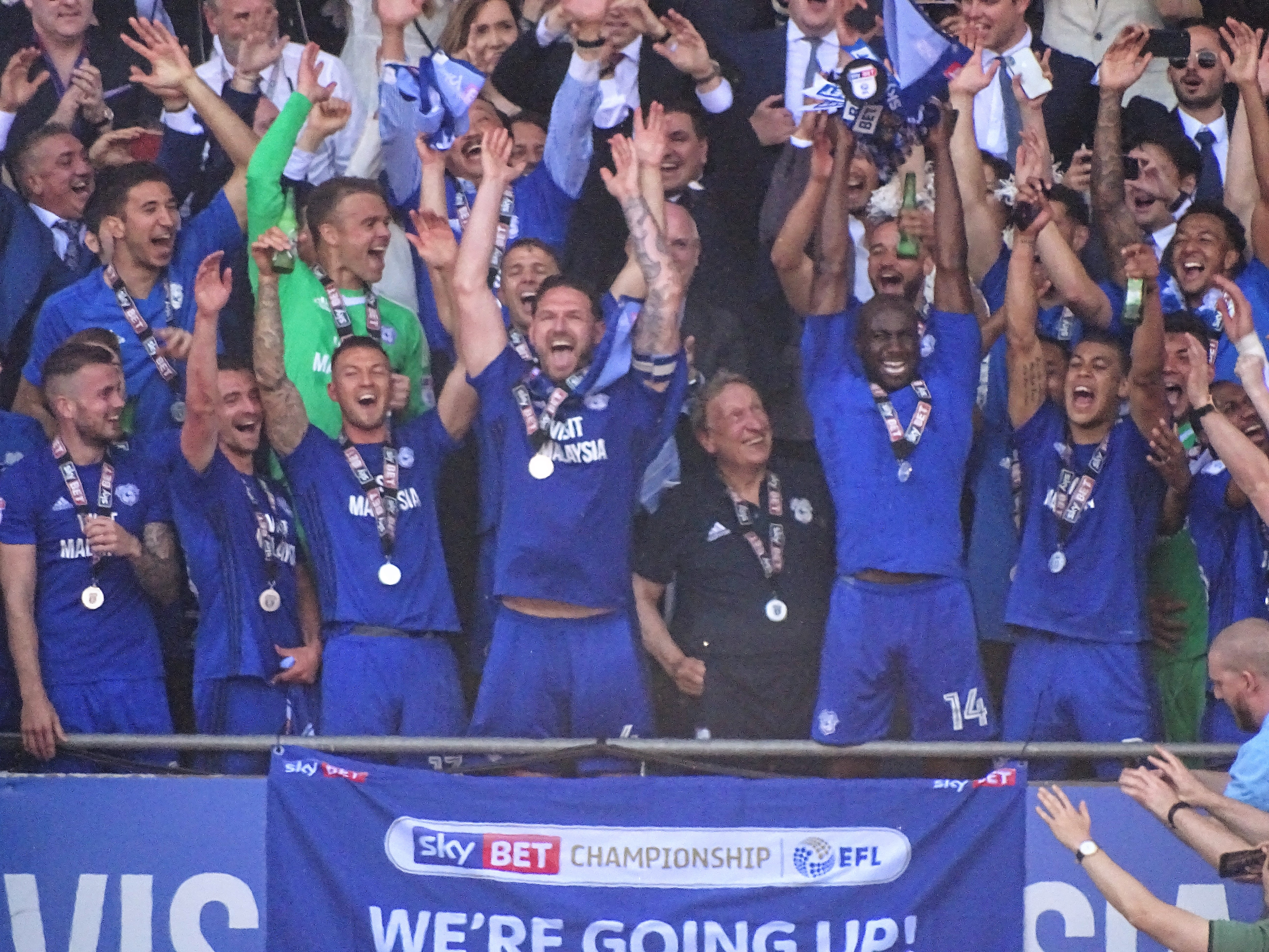 Cardiff City players lift the 2017-8 Championship runner-up trophy.